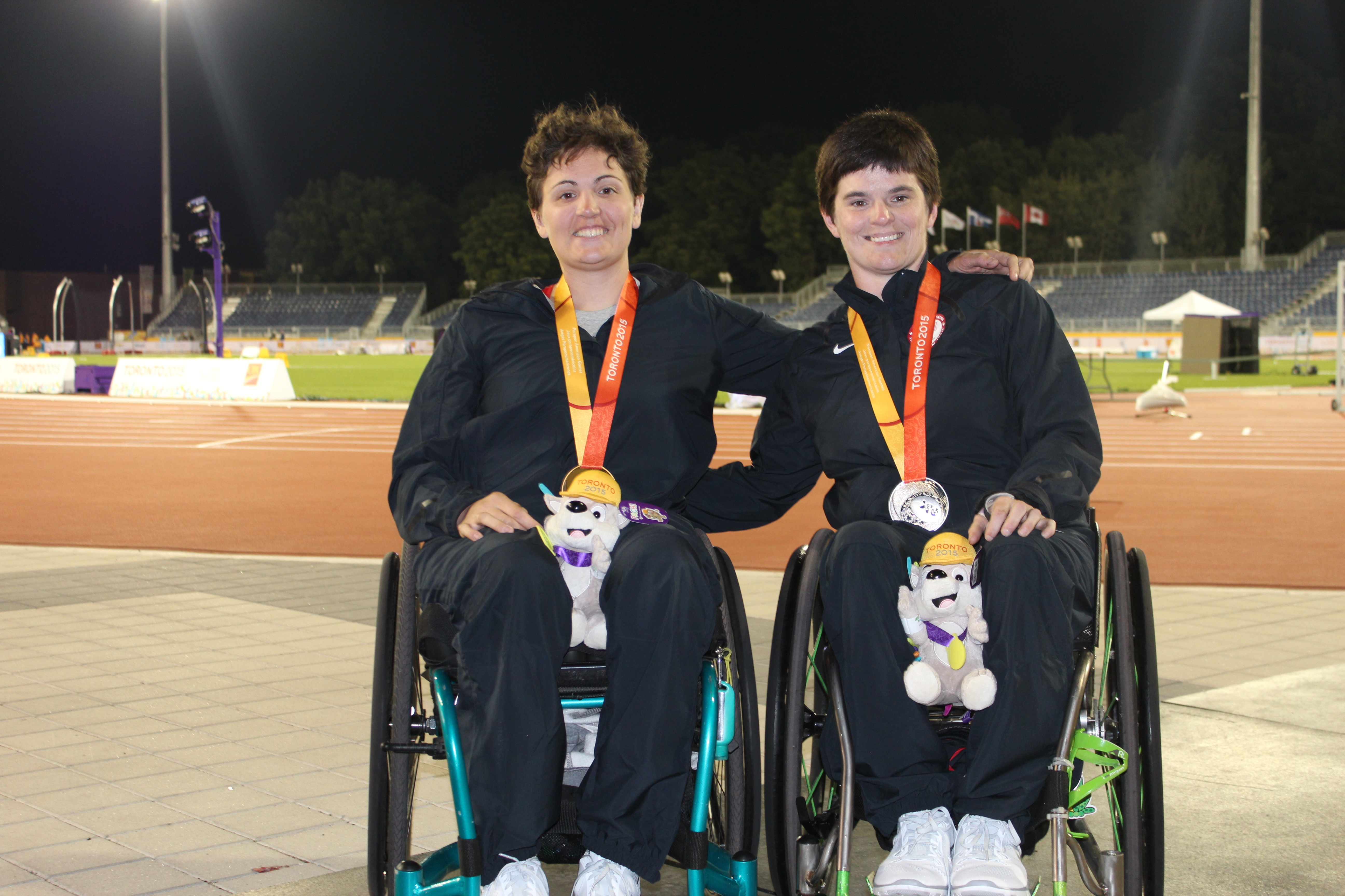 Rachael Morrison and Cassie Mitchell, 2015 Parapan American Games